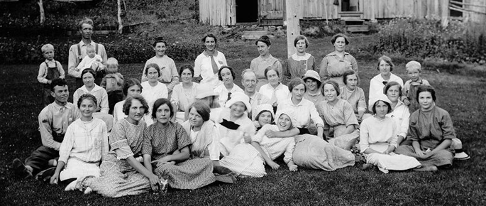 Gathering of a local Young Ladies Mutual Improvement Association of The Church of Jesus Christ of Latter-day Saints in Springdell, Utah, USA, 1914